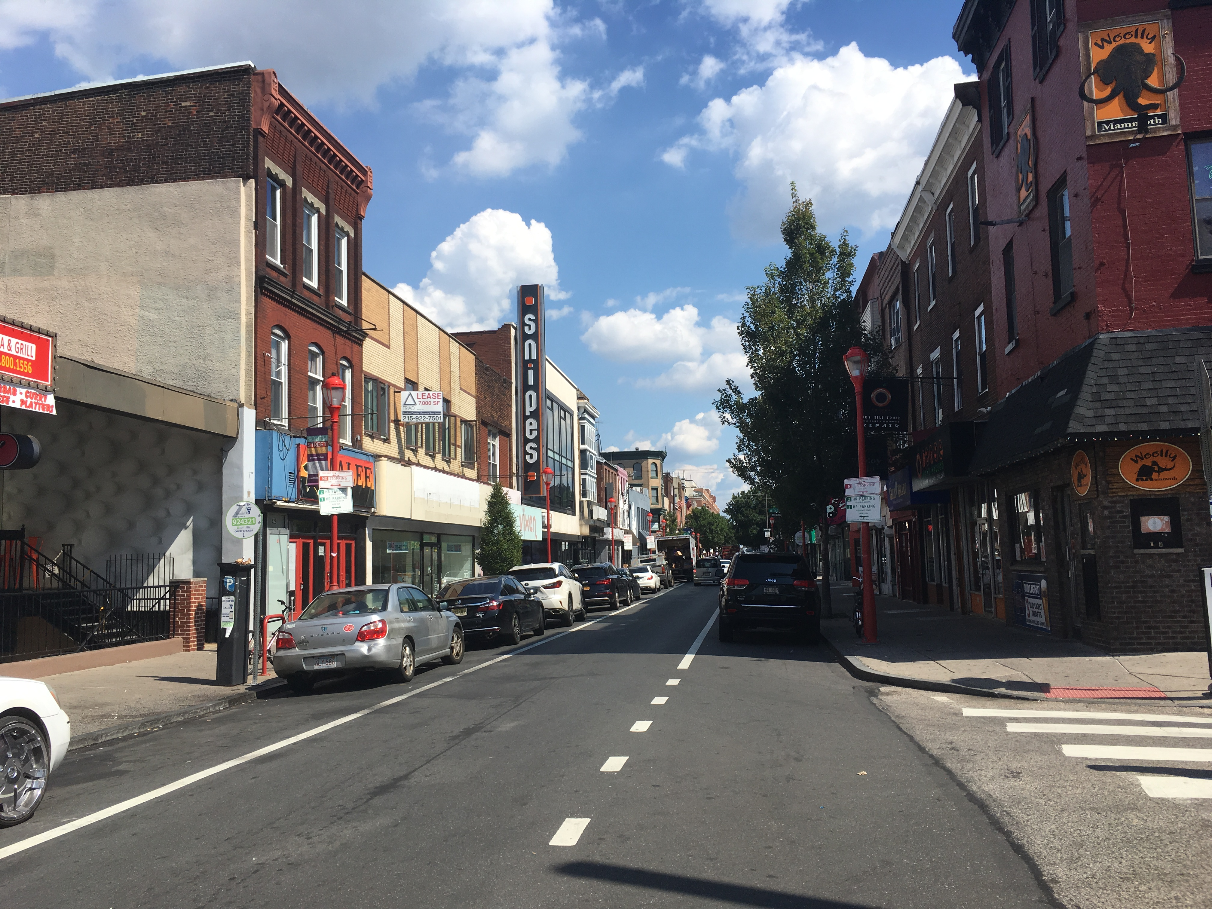 Eastbound South Street past the intersection with 5th Street in Philadelphia, Pennsylvania